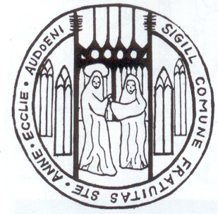 Picture of the seal of the Guild of St. Anne, Dublin, dating from 1599.